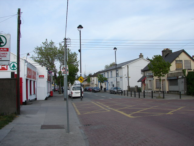 Rathcoole Main Street